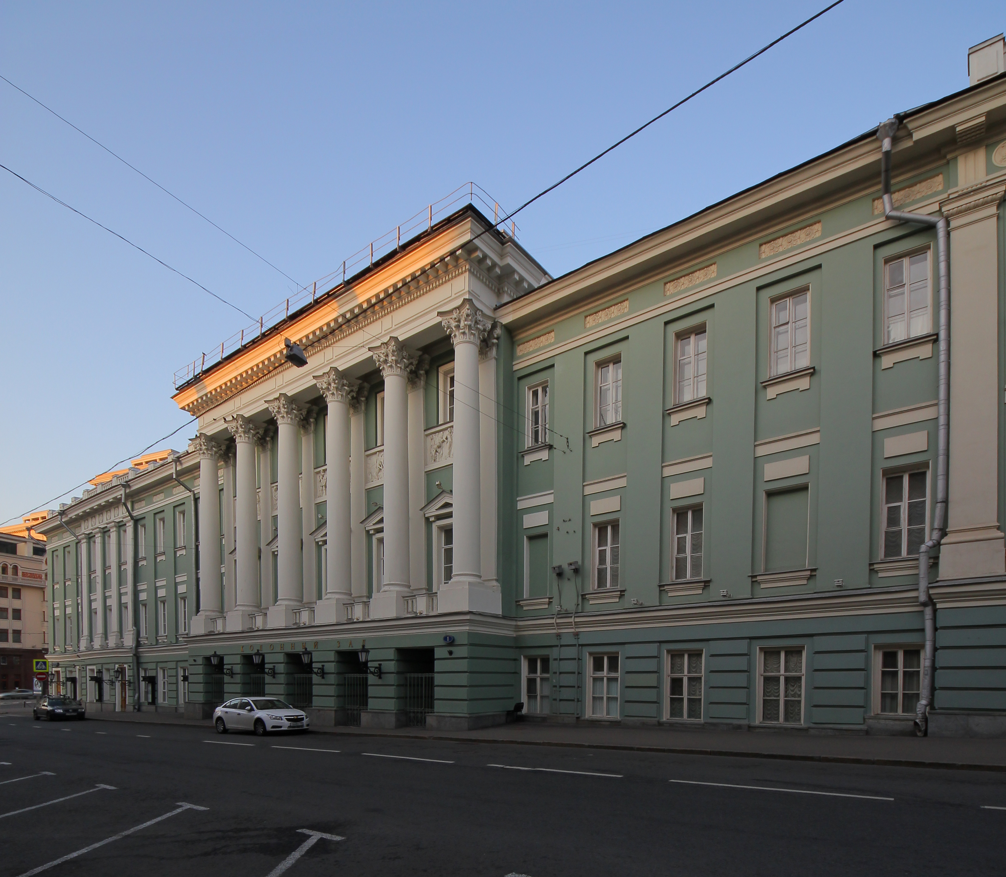 The House of the Unions in Moscow, view from Bolshaya Dmitrovka Street